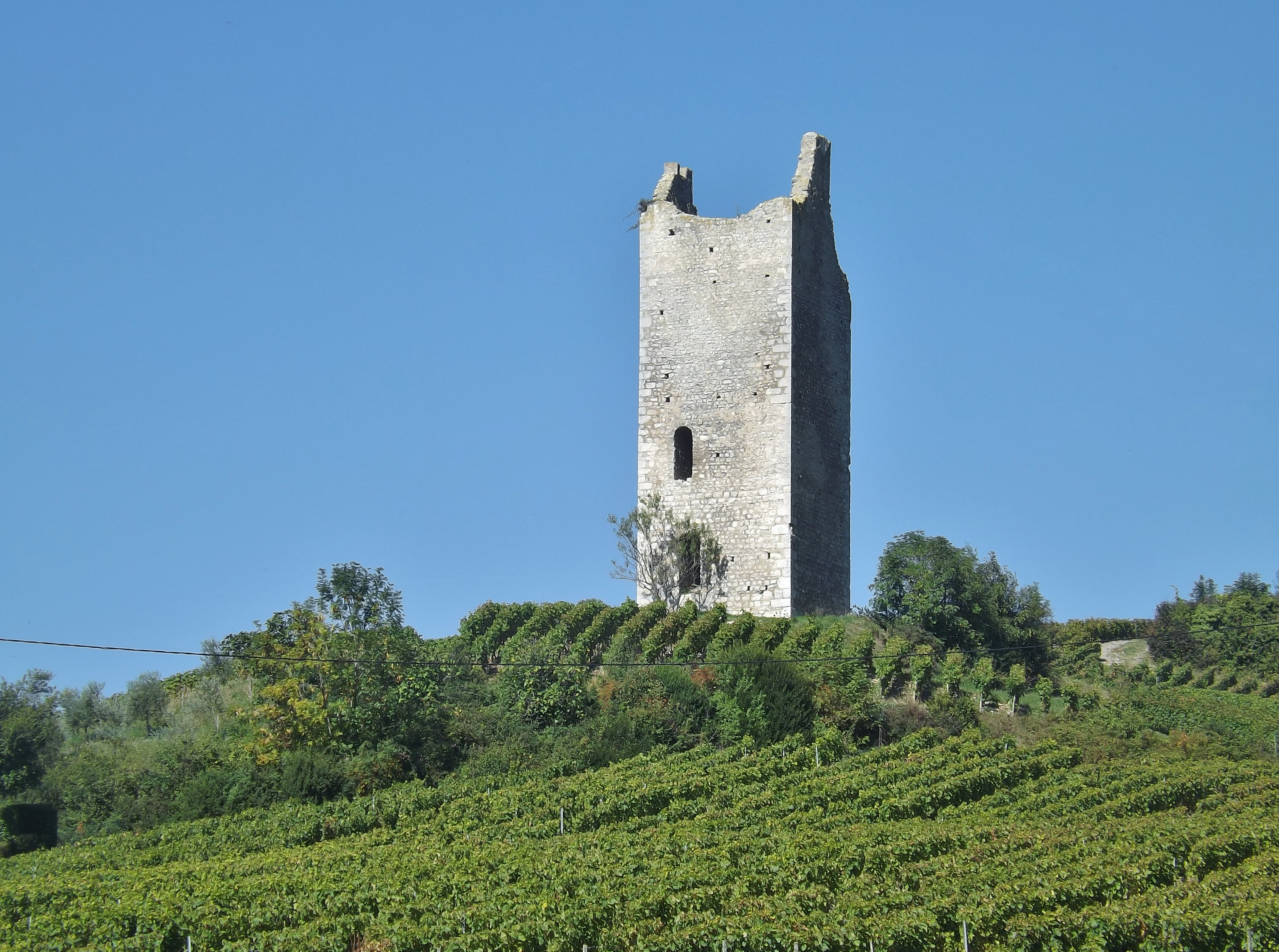 Sight of the tour de la Place (or tour des Archers) tower, in the vineyards of Chignin, near Chambéry in Savoie, France.